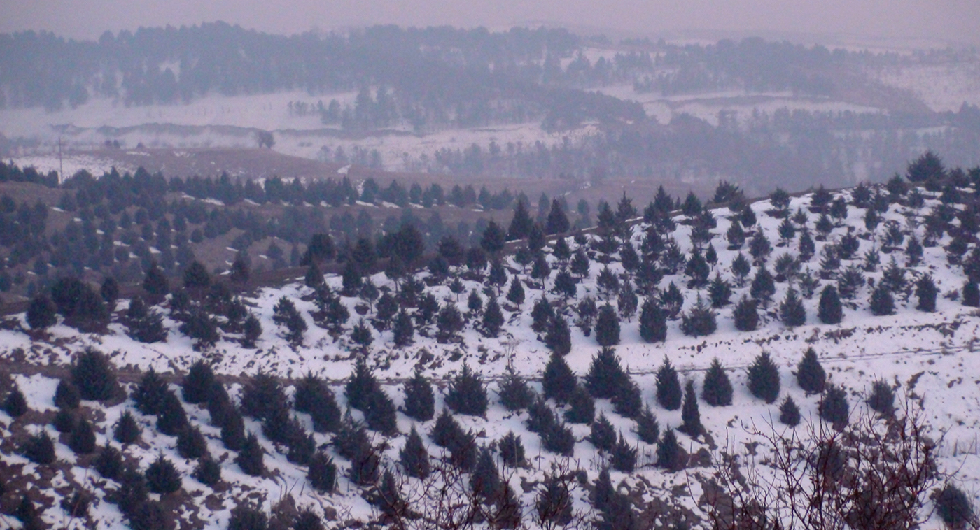 بخشی از طبیعت سوهانک در زمستان